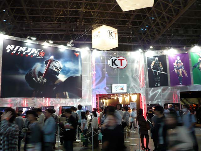 Koei Tecmo exposition for Ninja Gaiden 2.